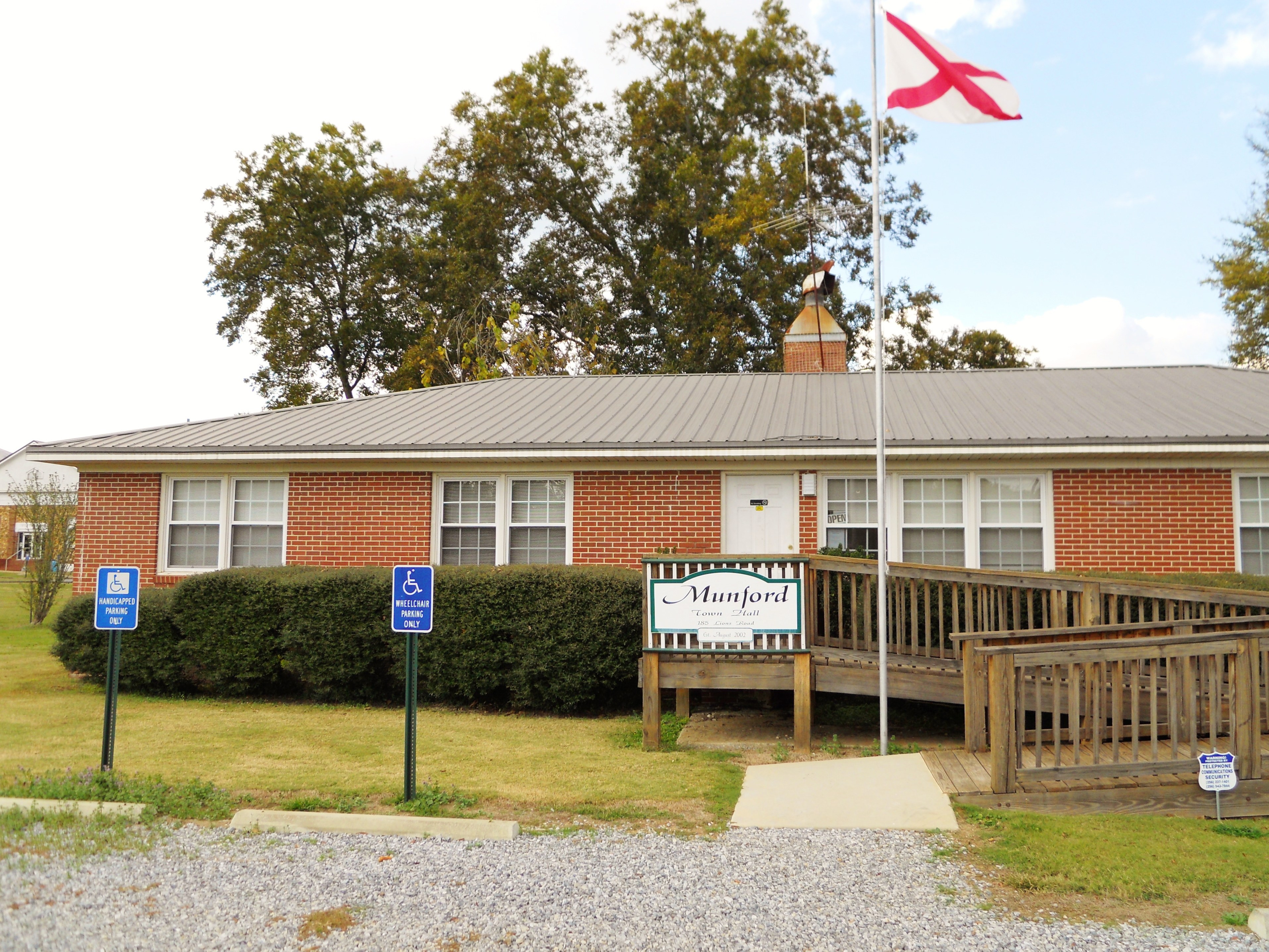 This is a photograph of the town hall in Munford, Alabama.